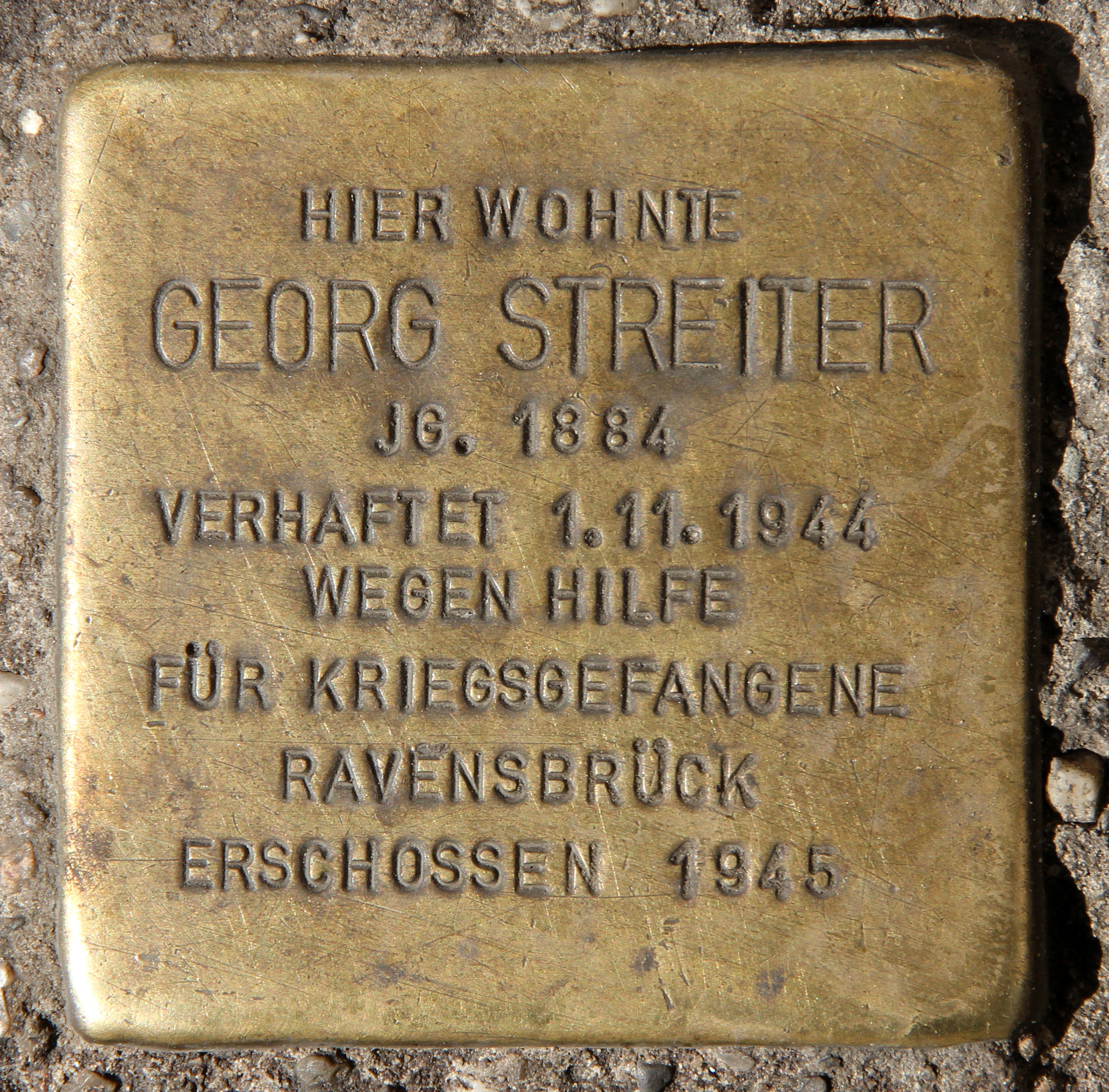 "Stolperstein" (stumbling block), Georg Streiter, Schönhauser Allee 130, Berlin-Prenzlauer Berg, Germany